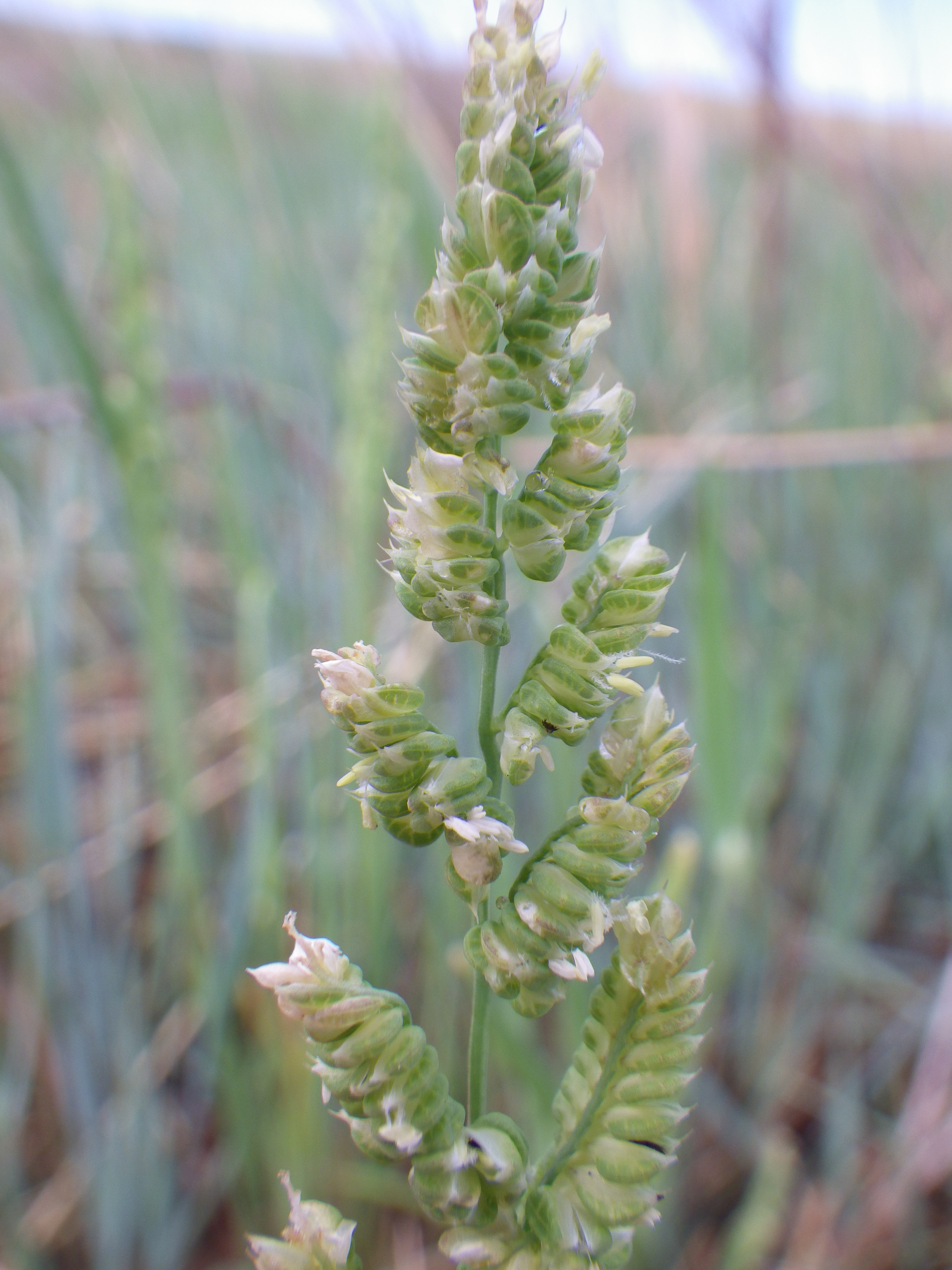 The inflorescences of spiklets that are stongly laterally compresses and stacked like pancakes in a secund arrangement is very characteristic of this species.